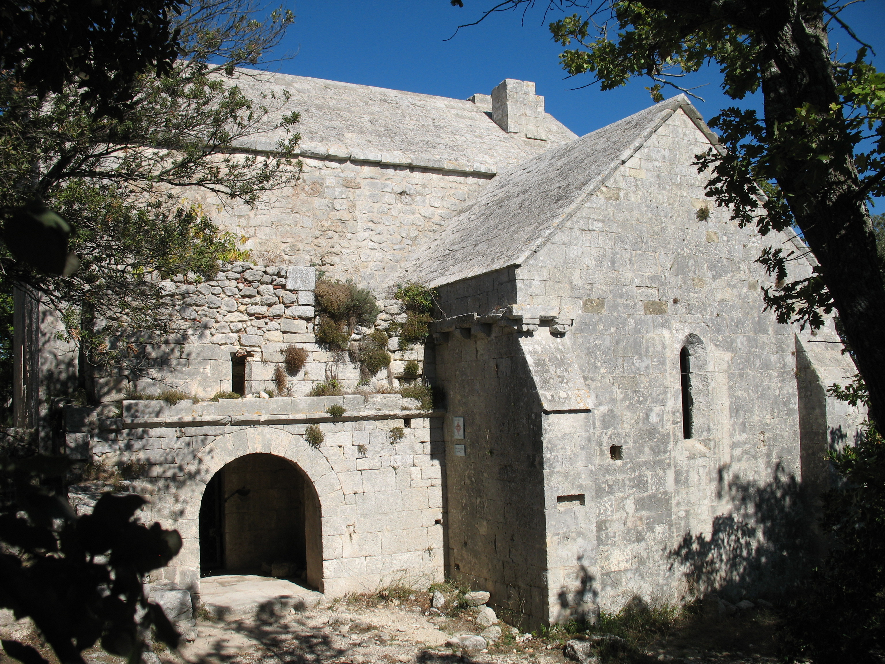 La Roque d'Anthéron - Sainte Anne de Goiron Chapel